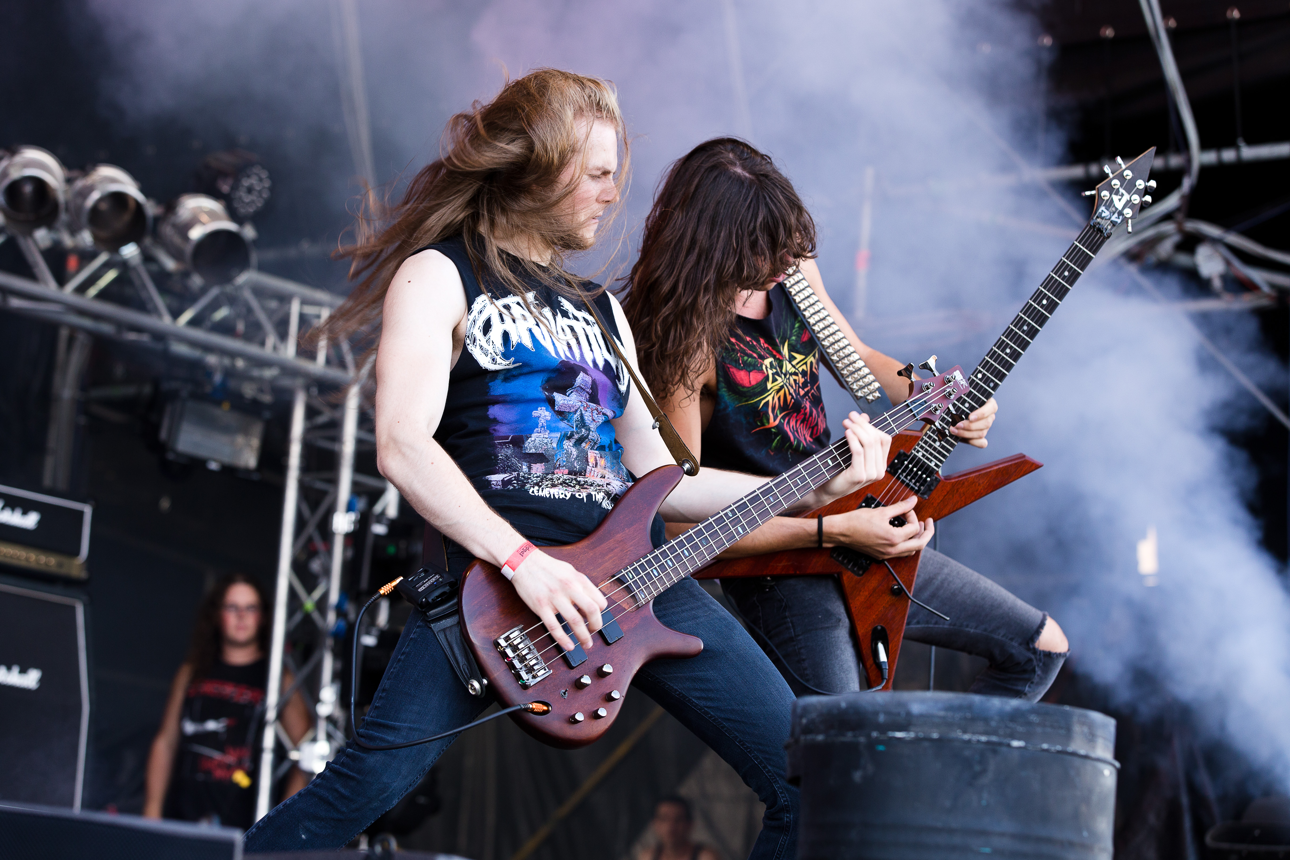 The Belgian speed metal band Evil Invaders at the Party.San Open Air 2015 in Obermehler-Schlotheim/Germany.